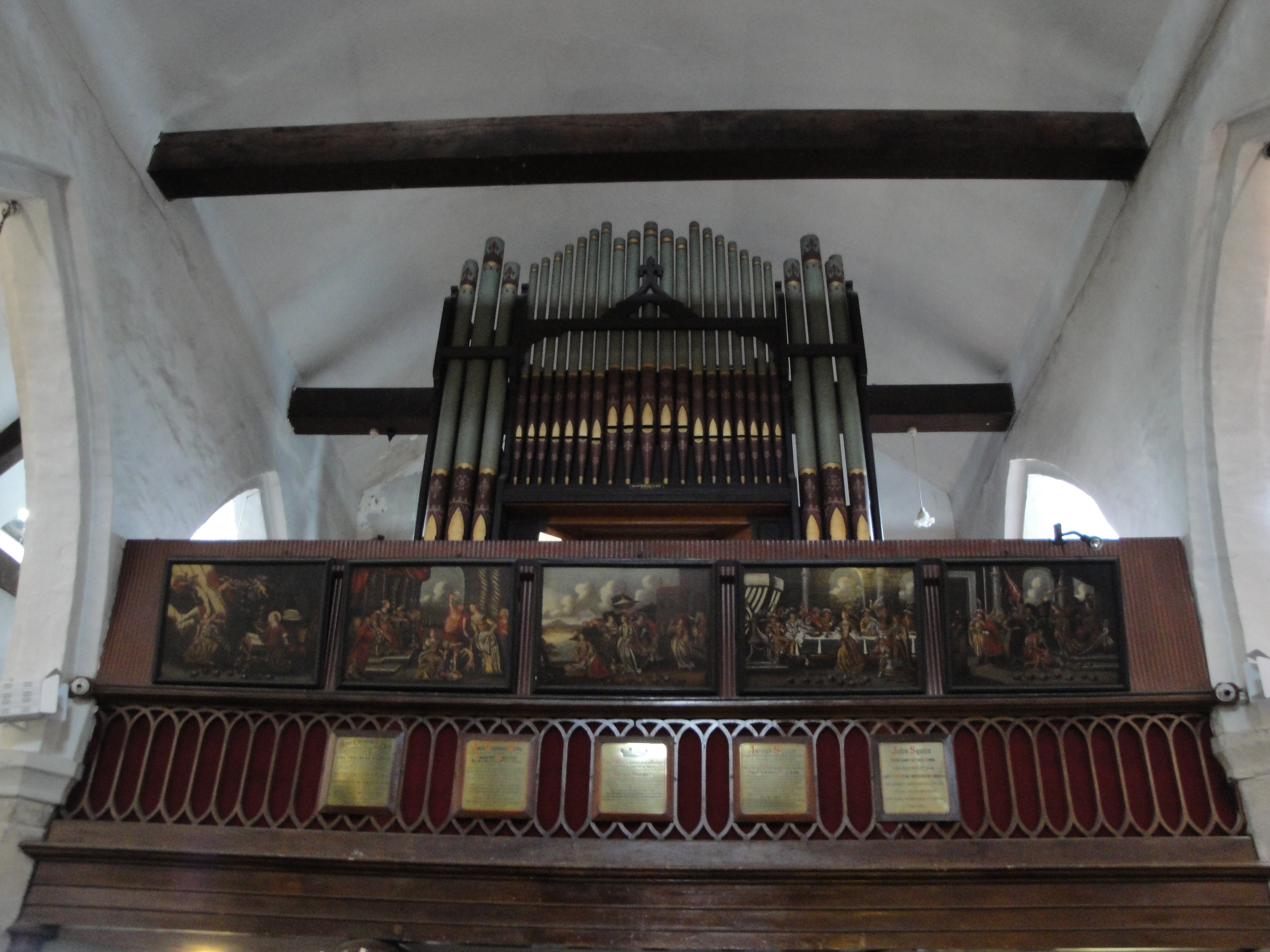 The organ inside St James Church, Yarmouth, Isle of Wight.